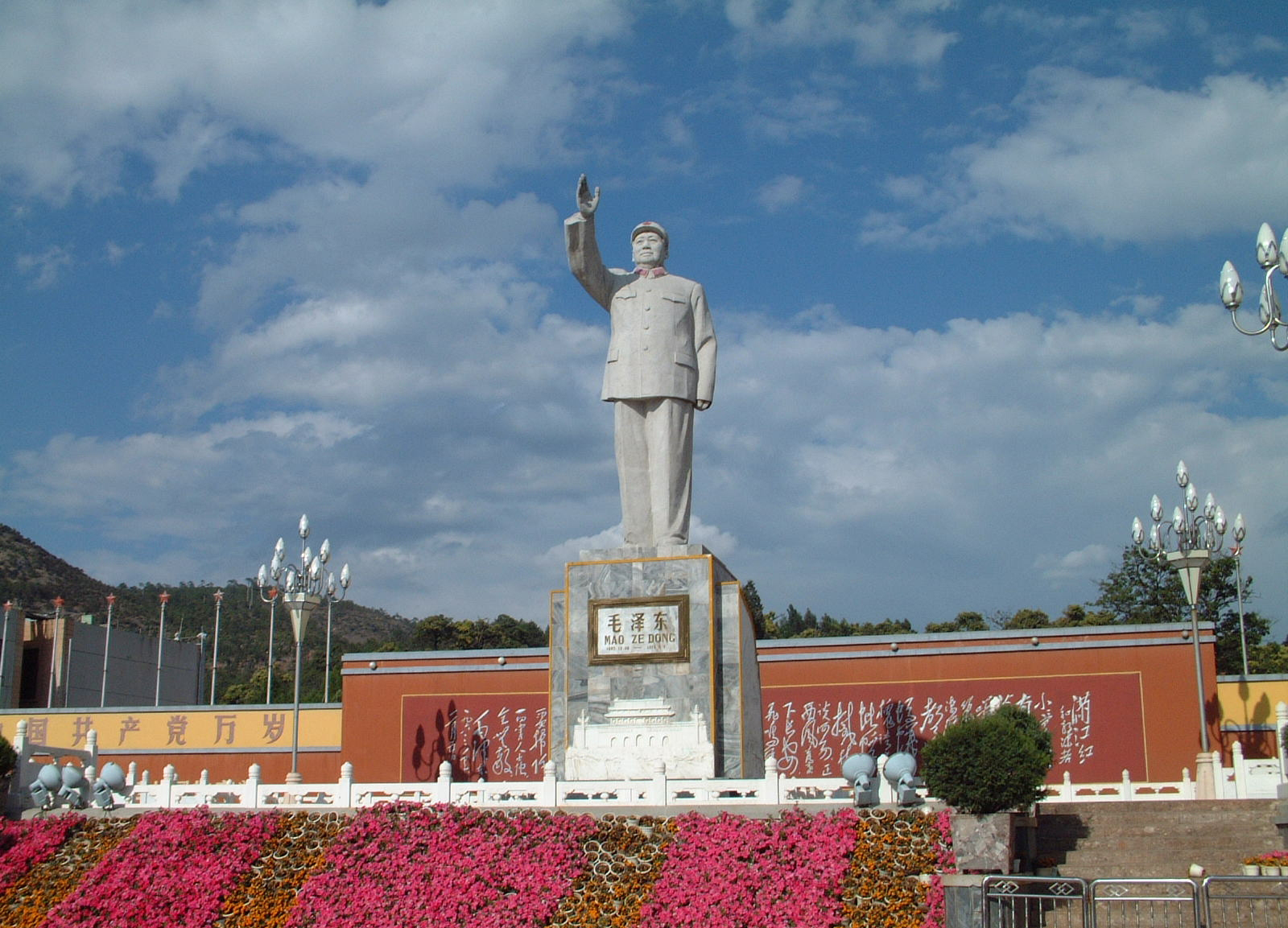 The Red Sun square (Hong Taiyang Guangchang) in Lijiang City, with a Mao Zedong momnument